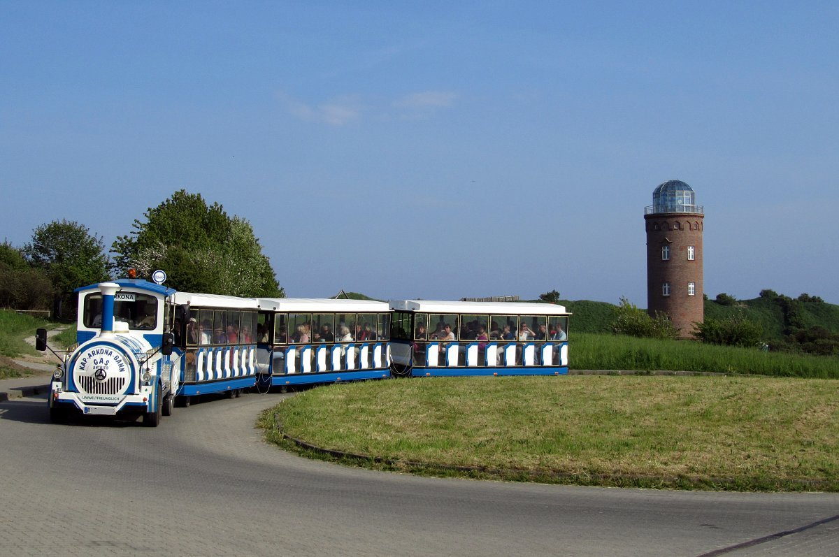 Germany / Rügen / Kap Arkona: street train